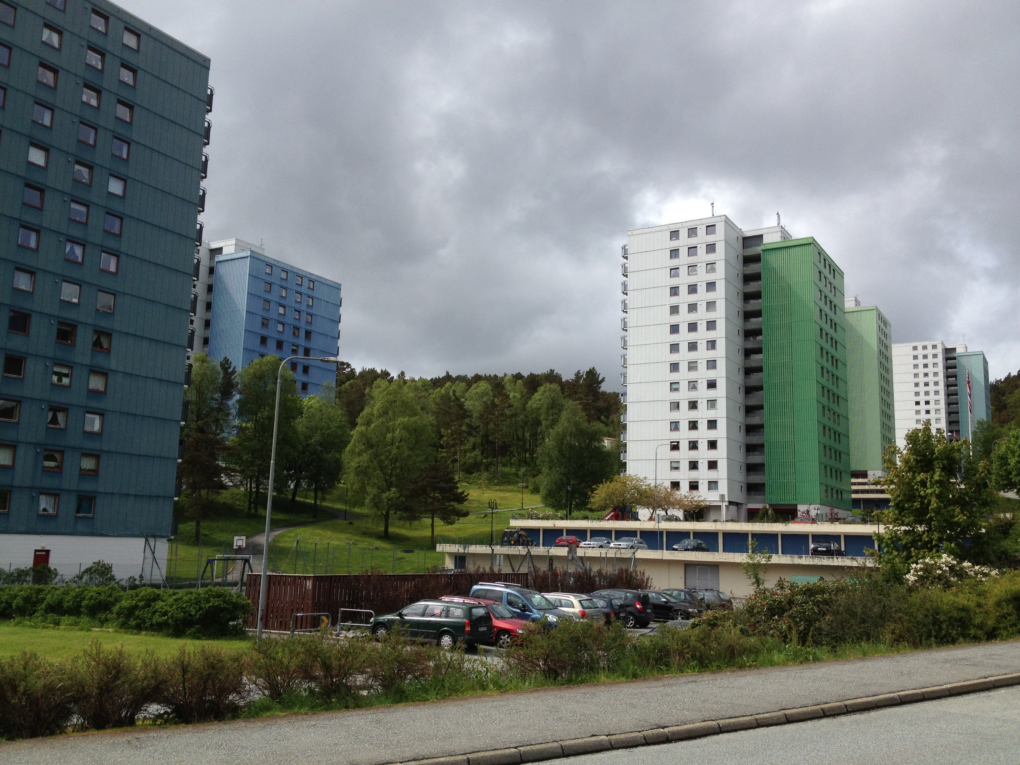 Løvåsen borettslag in Fyllingsdalen, Bergen, Norway